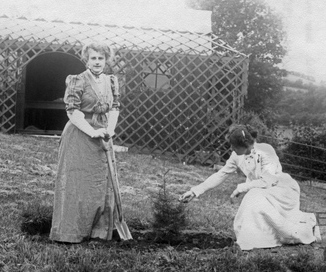 In 1909 Marie and Georgina Brackenbury were invited to "Suffrogettes Rest" in Batheaston to celebate going to jail by planting a tree